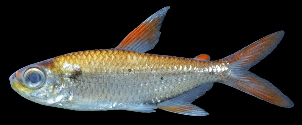 Moenkhausia copei GUY14-29 37mm